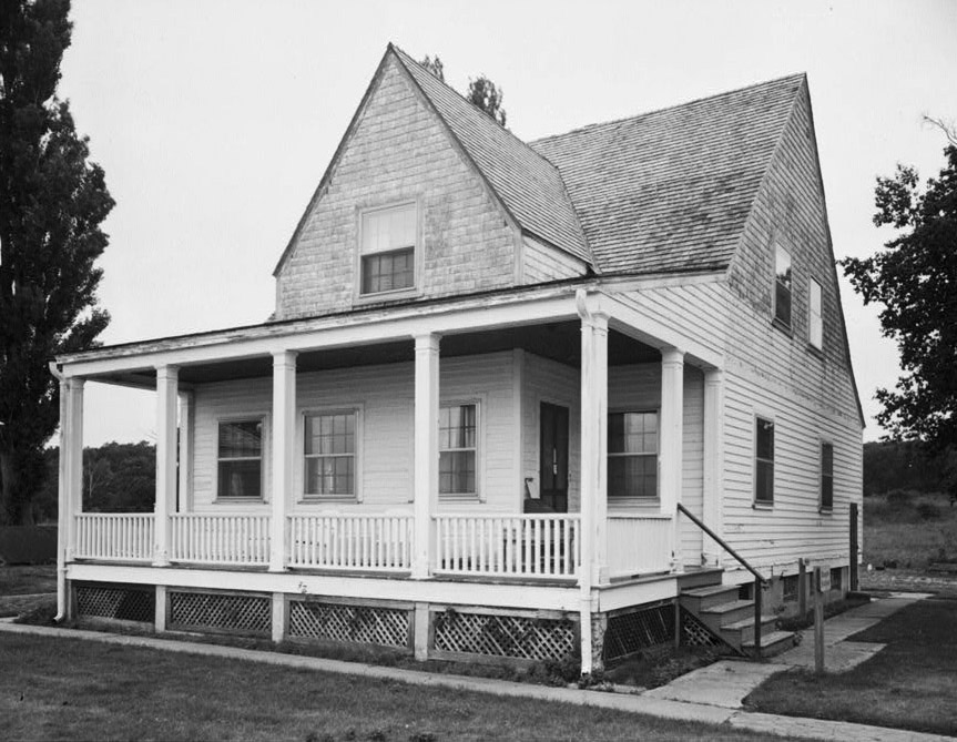 US Lifesaving Station, North Manitou Island - Crews Quarters NRHP #98001191